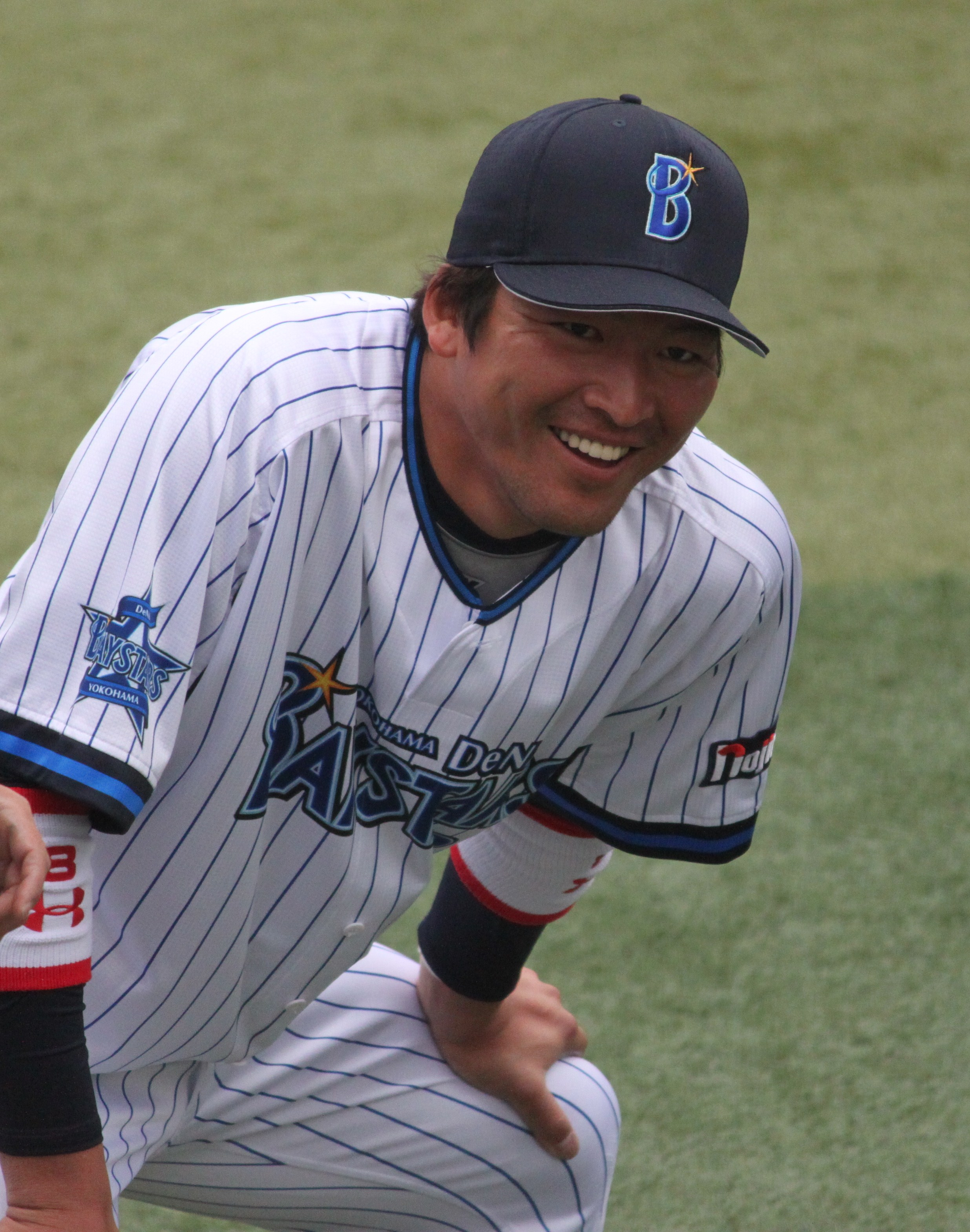 Masaaki Koike, outfielder of the Yokohama DeNA BayStars, at Yokohama Stadium.